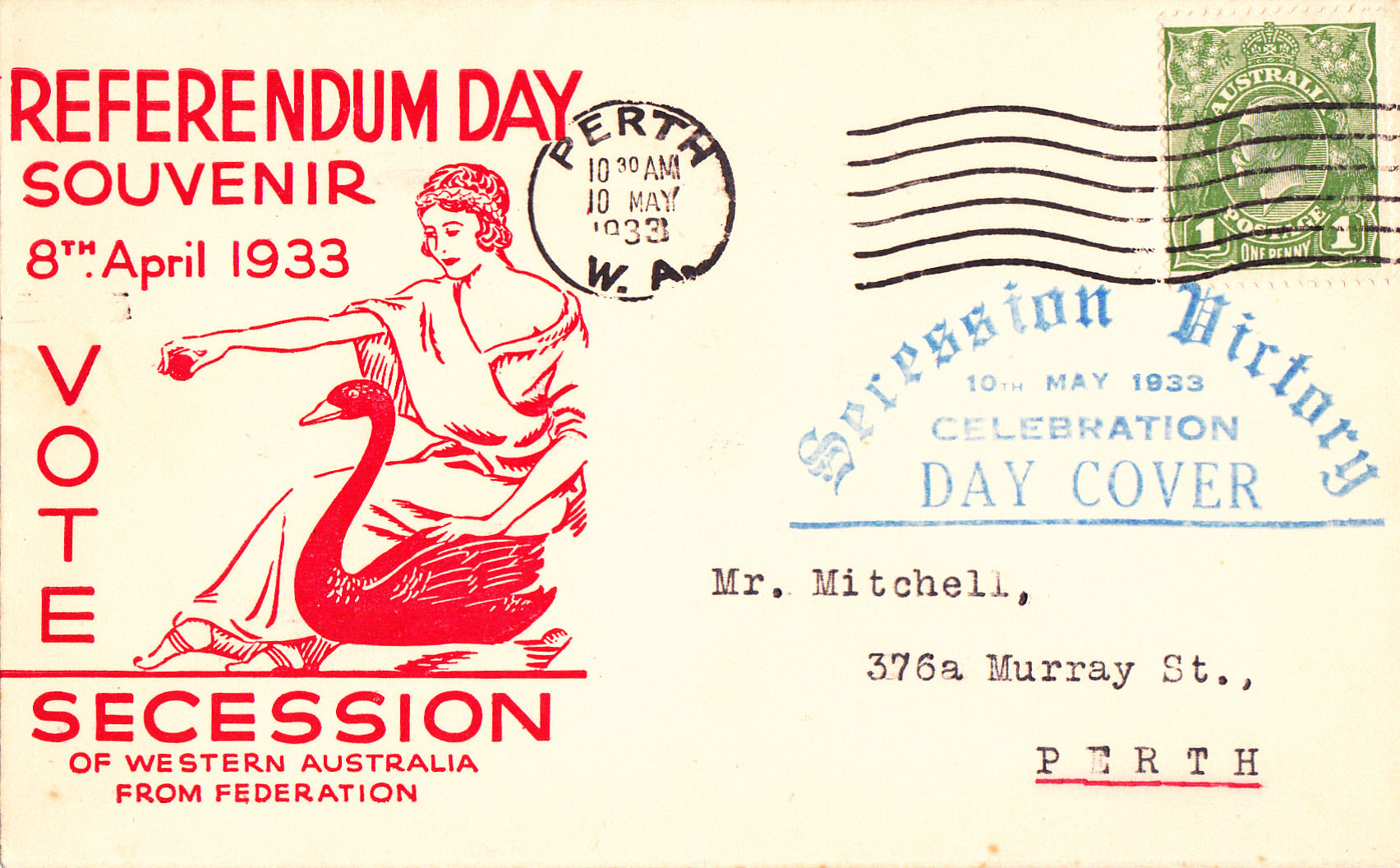 A souvenir envelope produced by S Mitchell marking the celebration of the secession referendum in 1933